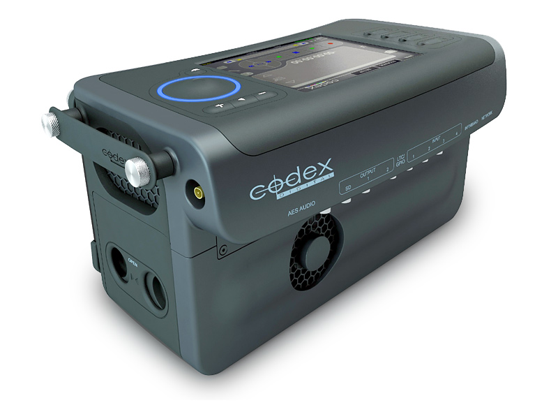 Codex Portable high-resolution media recorder